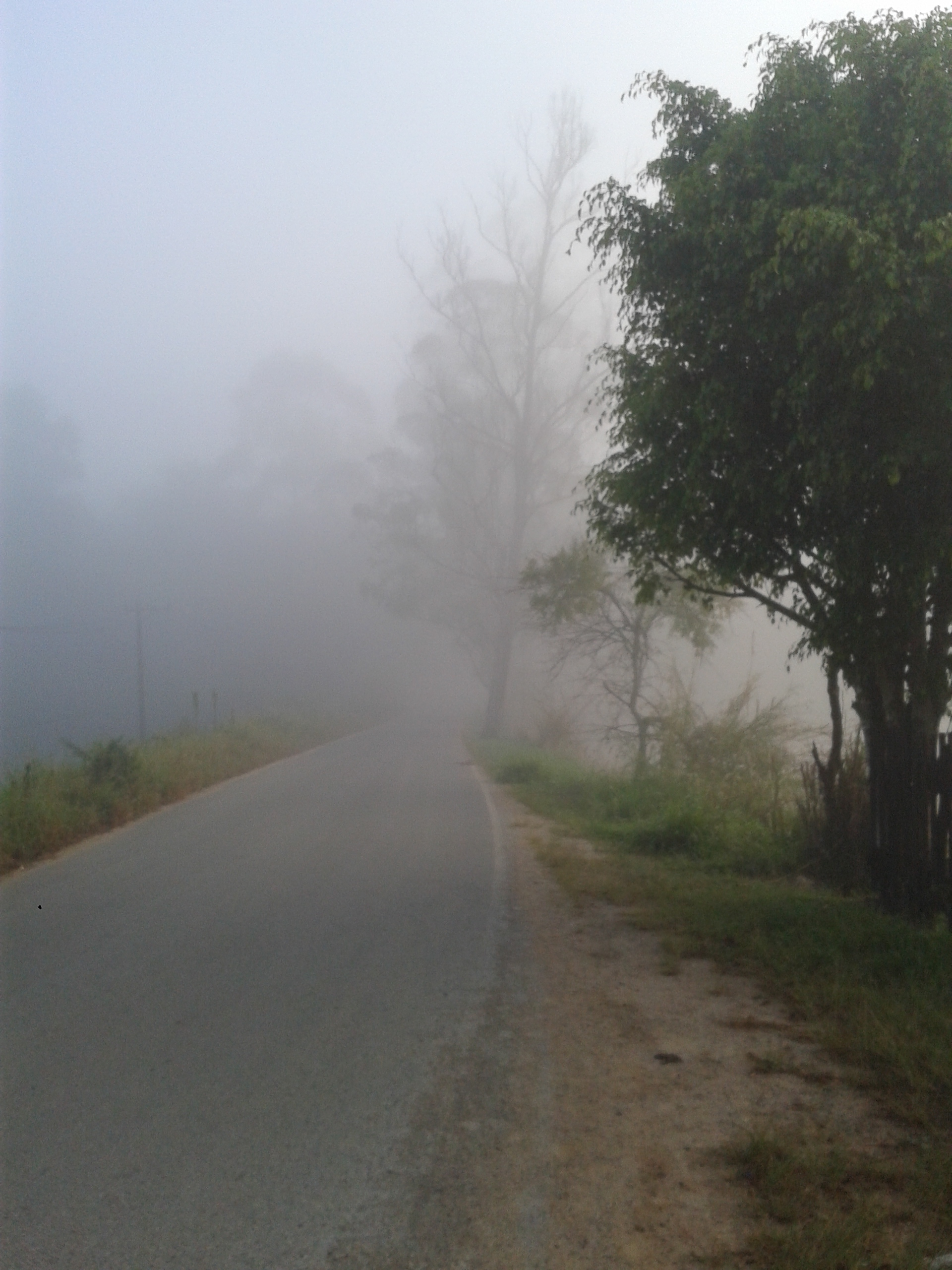 Nevoeiro na Sebandilha